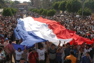 Caacupe, Paraguay.